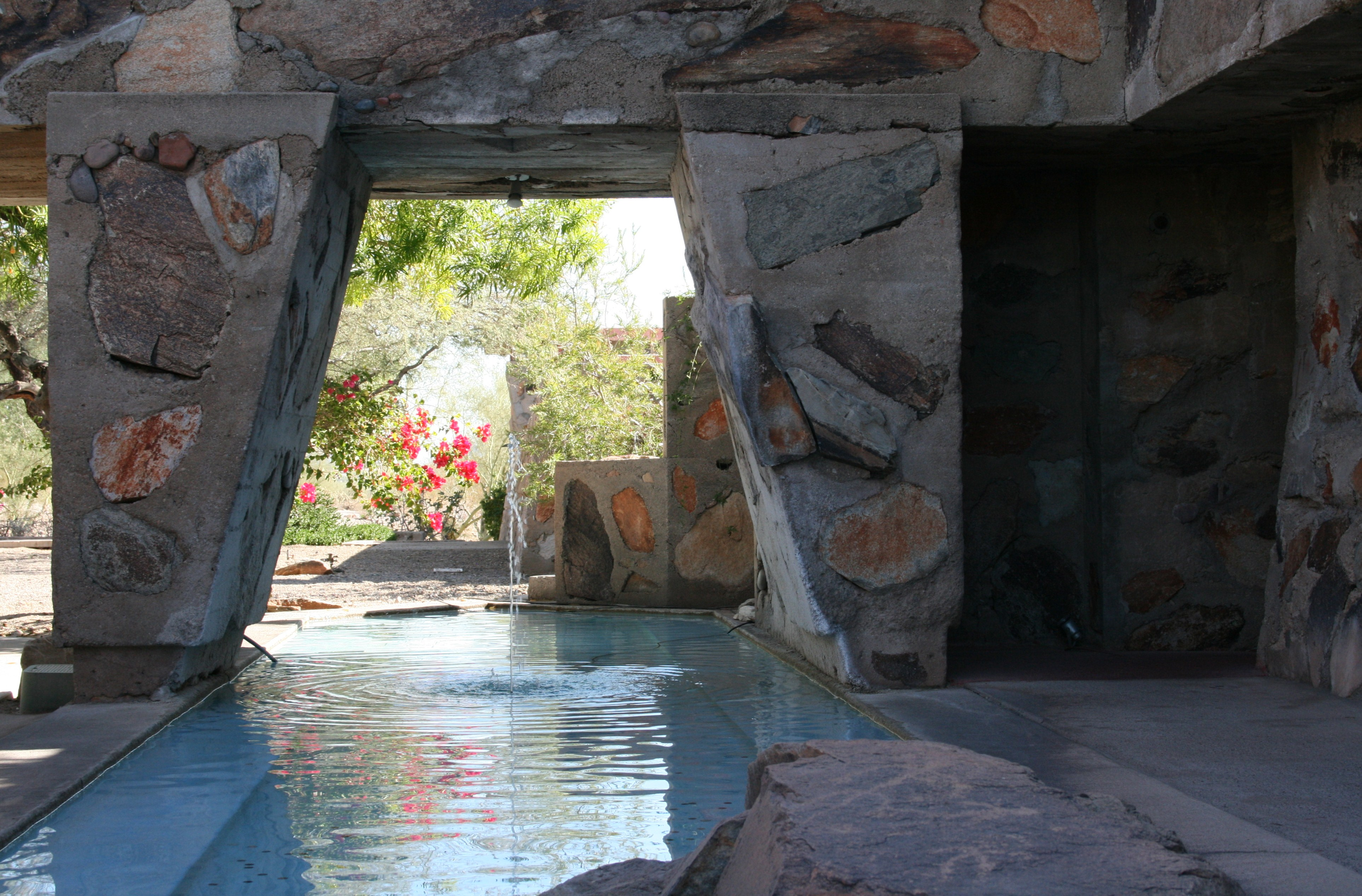 Pool & fountain at Frank Lloyd Wright's Taliesin West - Arizona.